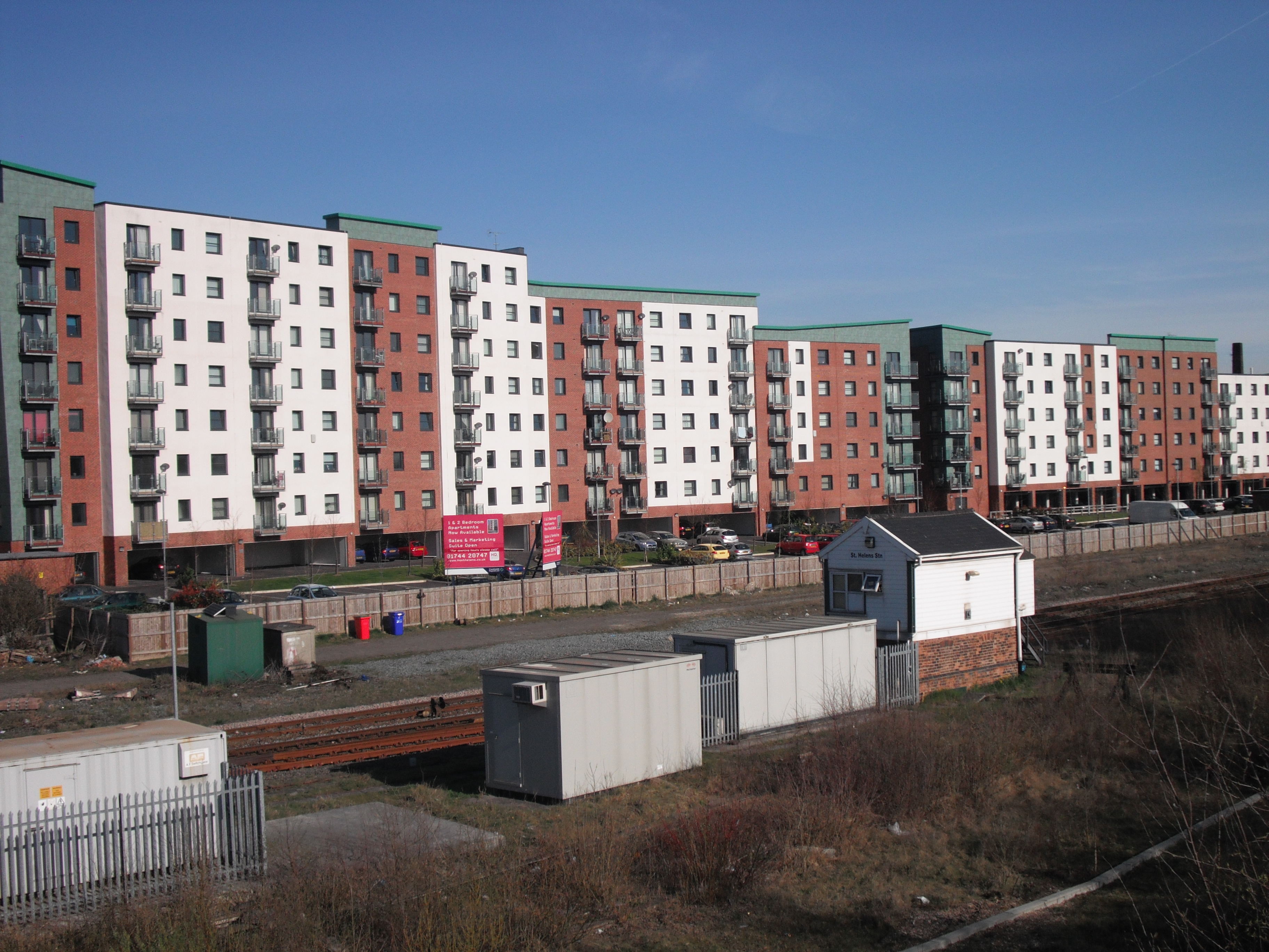 Apartment living comes to St Helens New flats (hurry - only a few left!) alongside the St Helens to Wigan railway line. The view of the flats may well be better than the view from them.